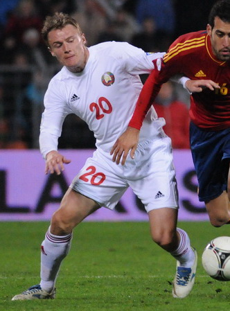 Belarusian football player Vital Radyyonaw (Віталь Радзівонаў) during 2014 World Cup qualifier against Spain